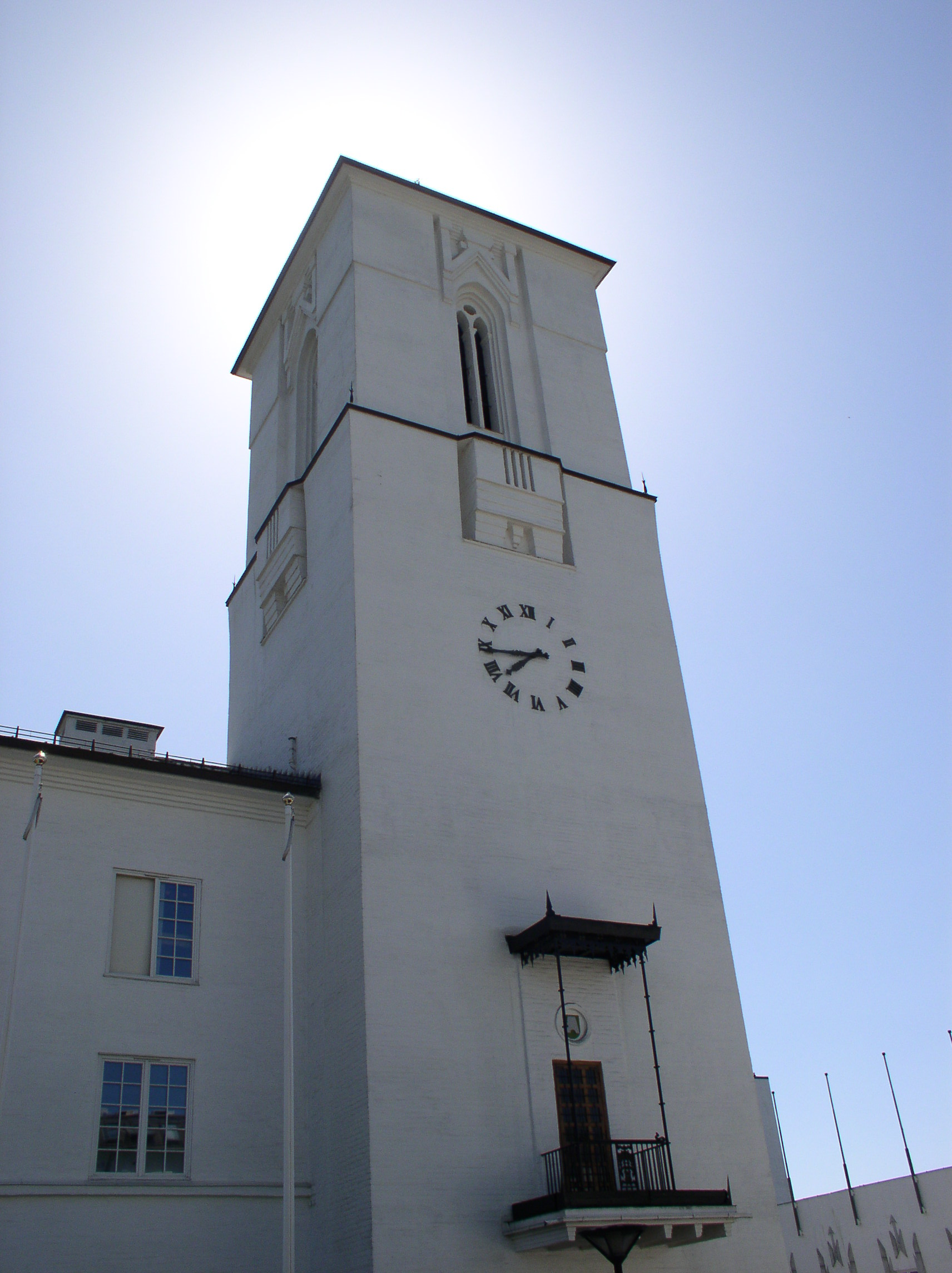 The tower of Bærum Town Hall